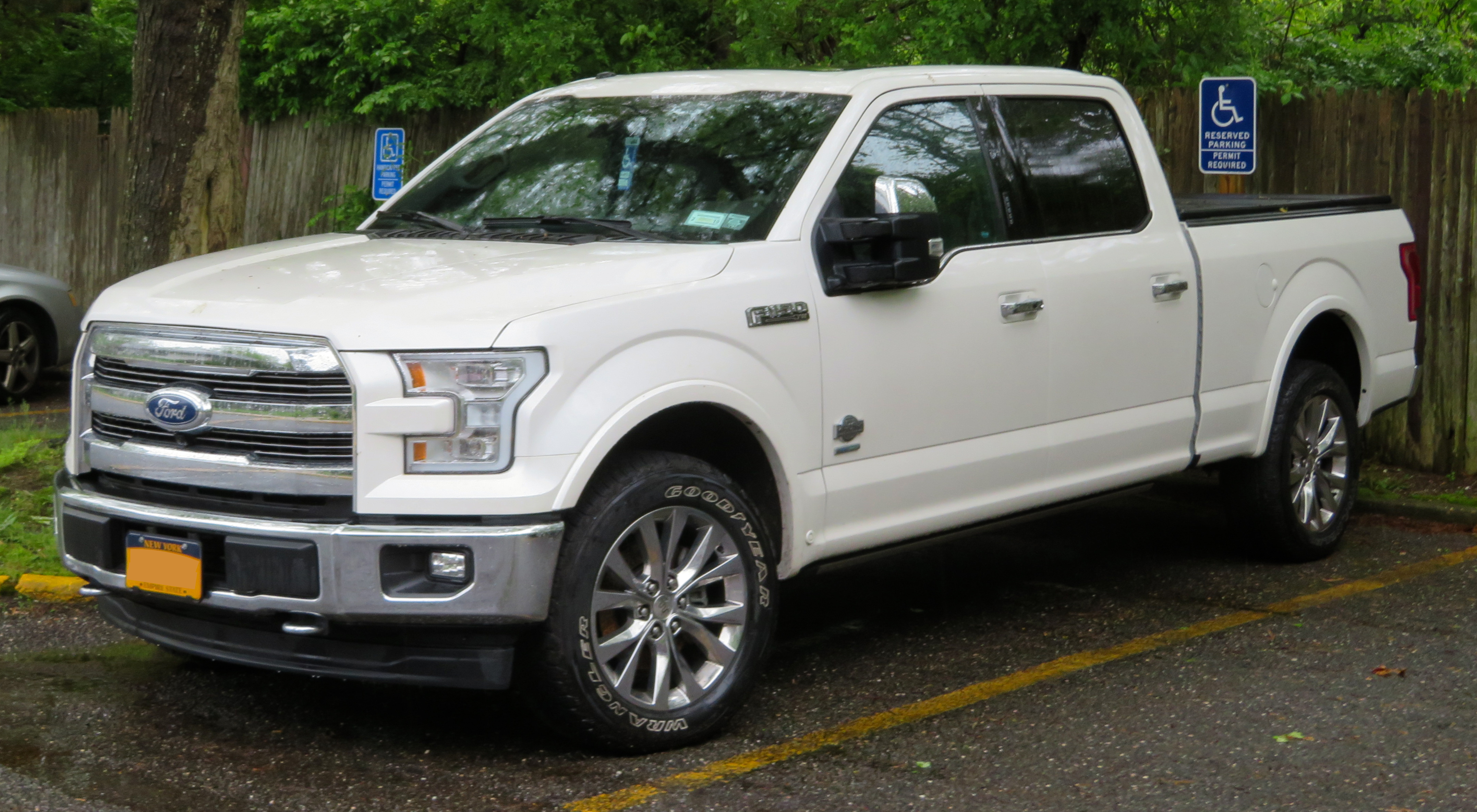 Photographed in Long Island, New York